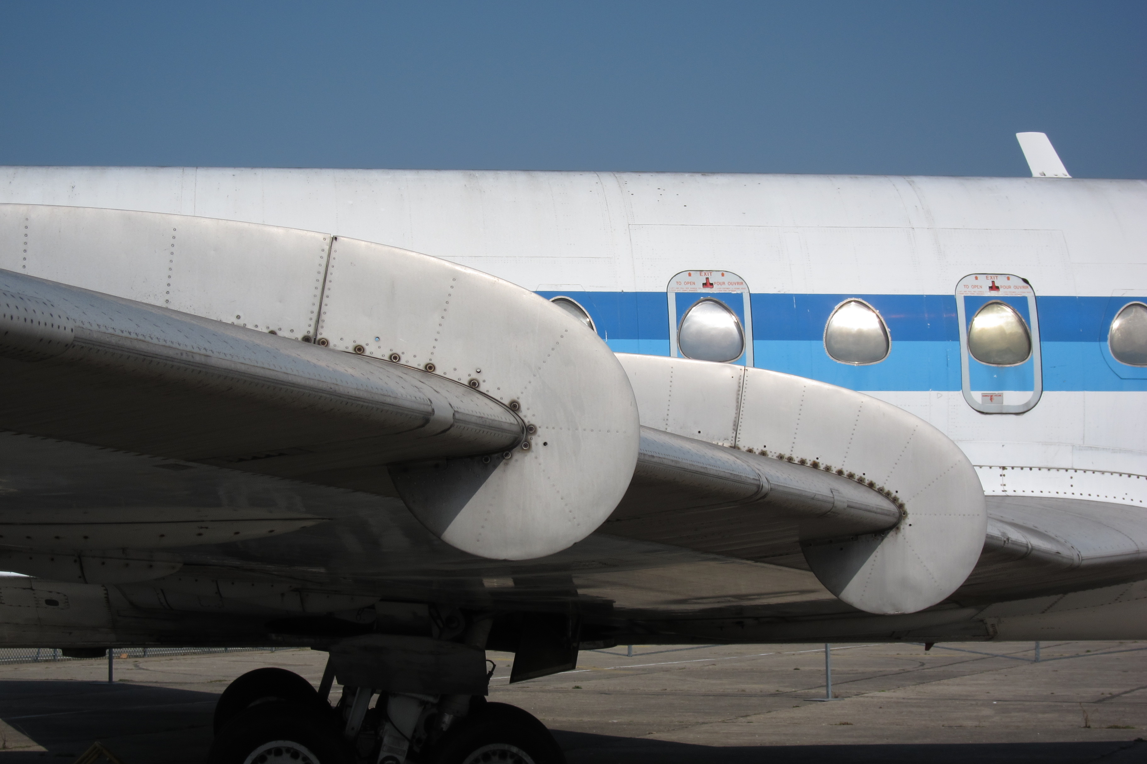 Wing fences can be seen starting from the leading edge of the wing of a Caravelle aircraft, photographed at the Musée de l’Air in the Bourget, France.